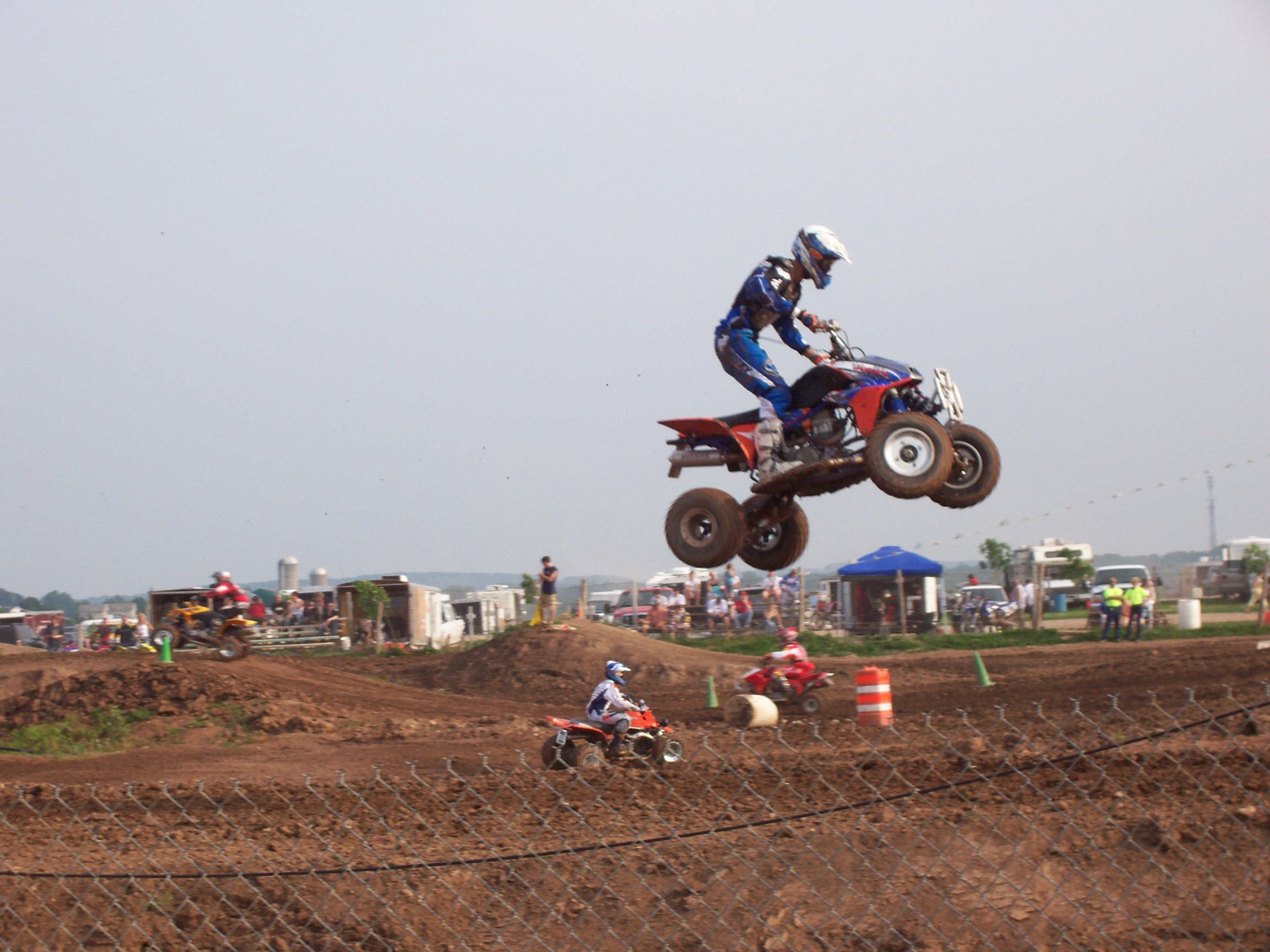 ATV (All Terrain Vehicle) racing at Gravity Park near Chilton, Wisconsin, United States.